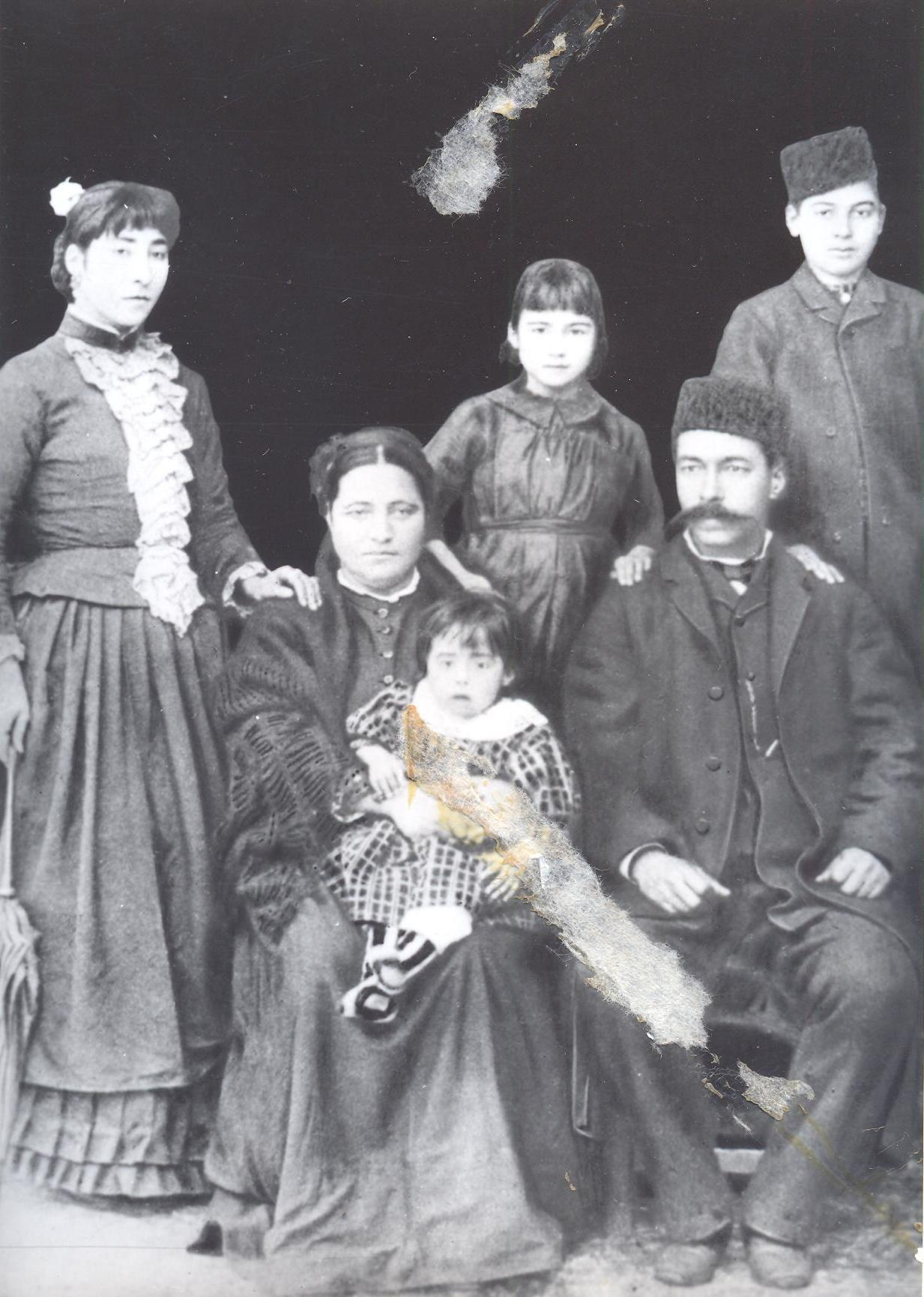 Peyo Yavorov and his family, Chirpan, Bulgaria